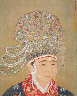 The Official Imperial Portrait of Song Dynasty's Empress